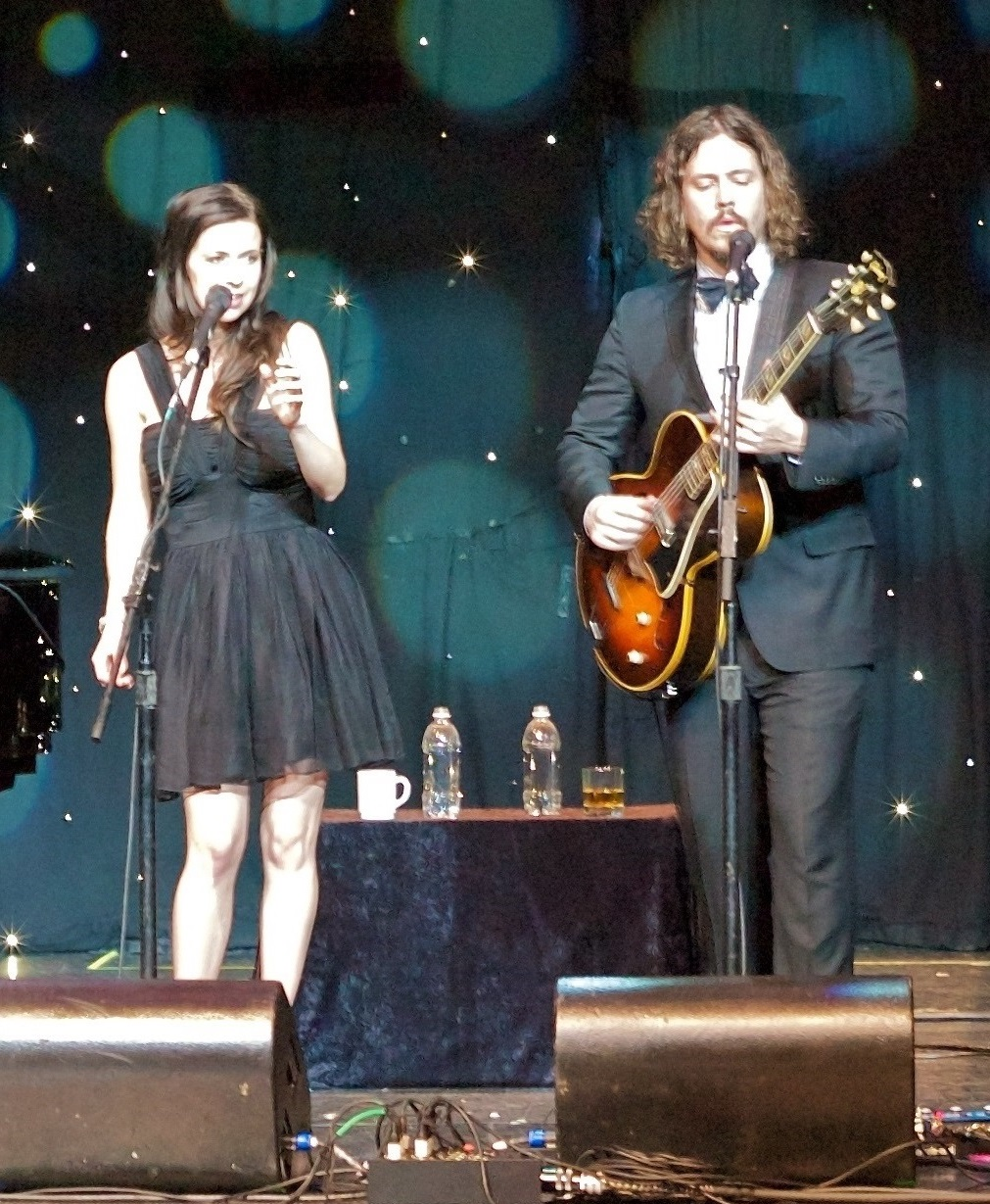 The Civil Wars in concert 2012